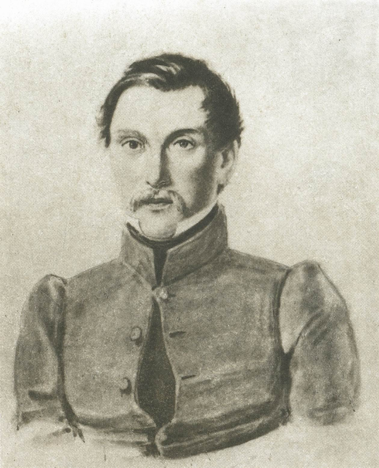 I. I. Pushchin